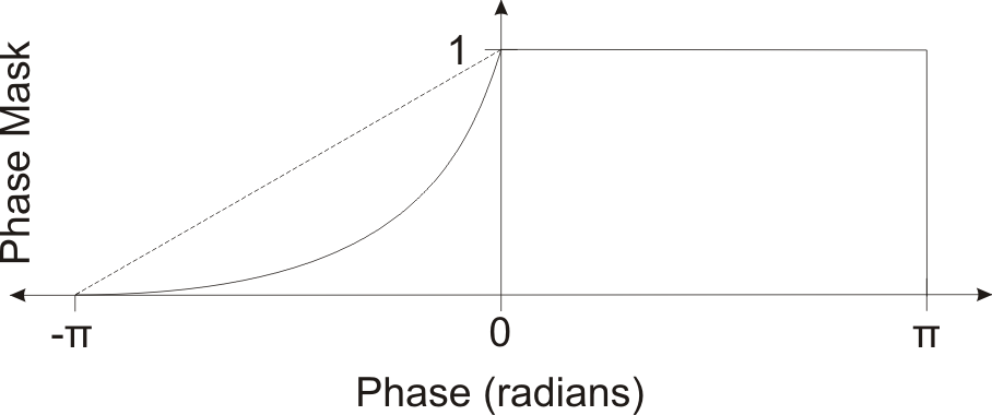 Graph showing phase mask used in susceptibility weighted image (SWI) processing. Dashed line shows a linear mapping, solid line shows a 4th power mapping.